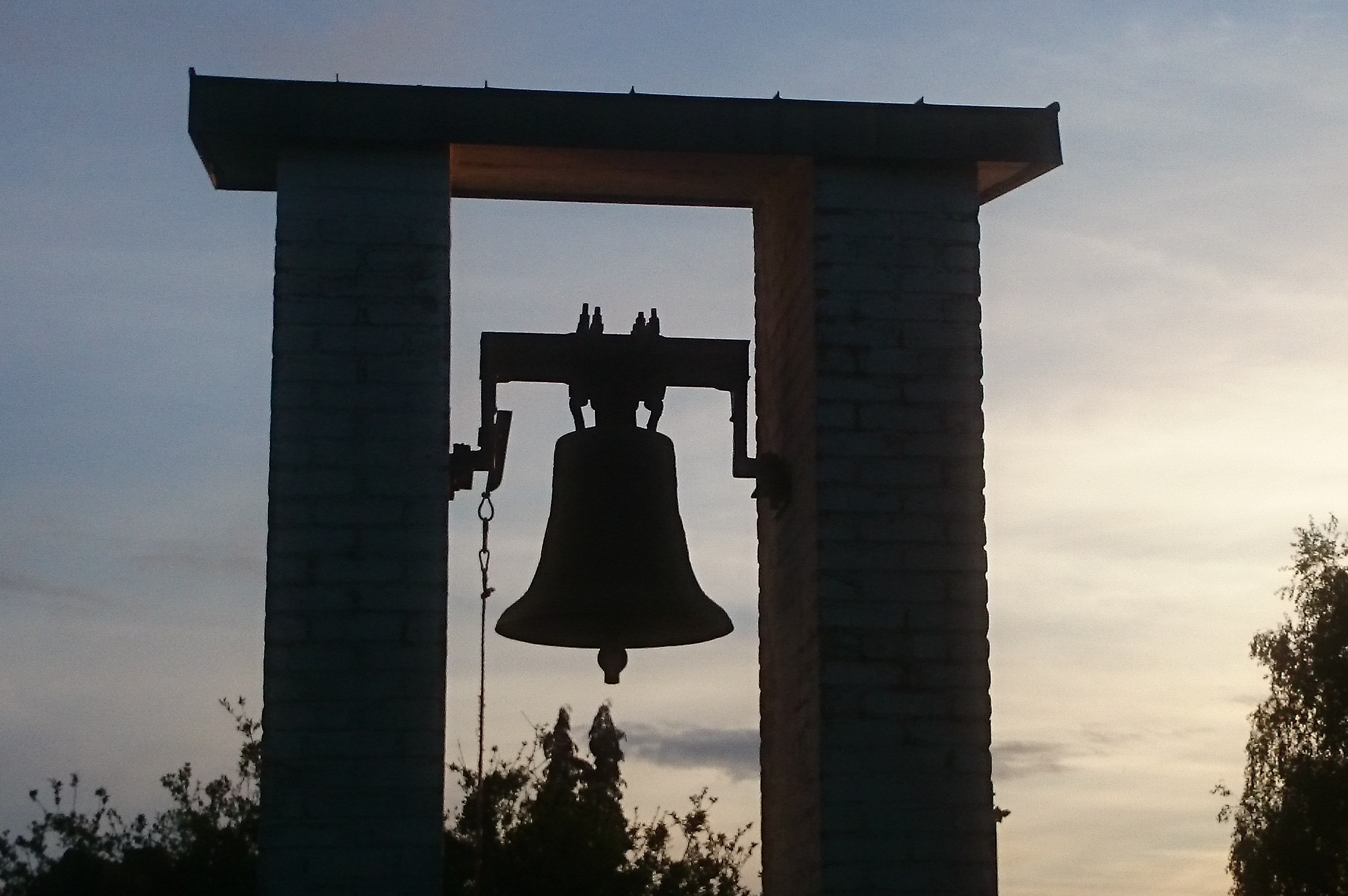 Berlin in early summer